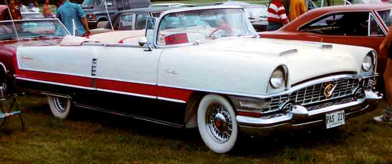 Packard Caribbean Convertible